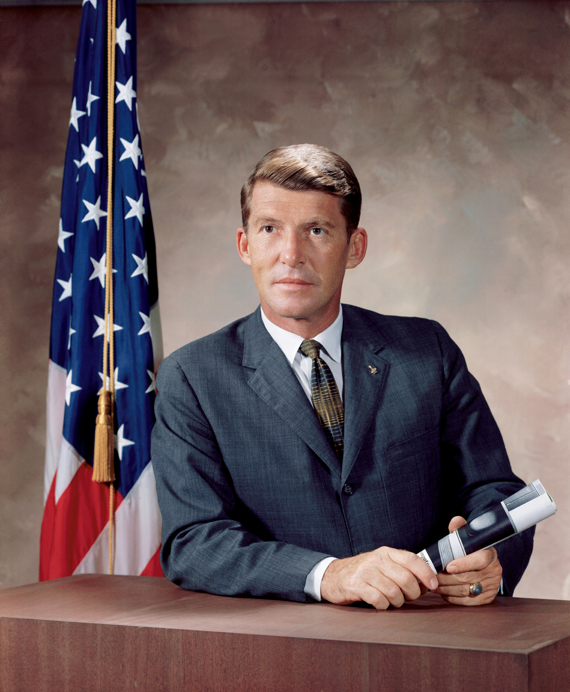 Portrait of American astronaut Walter Schirra